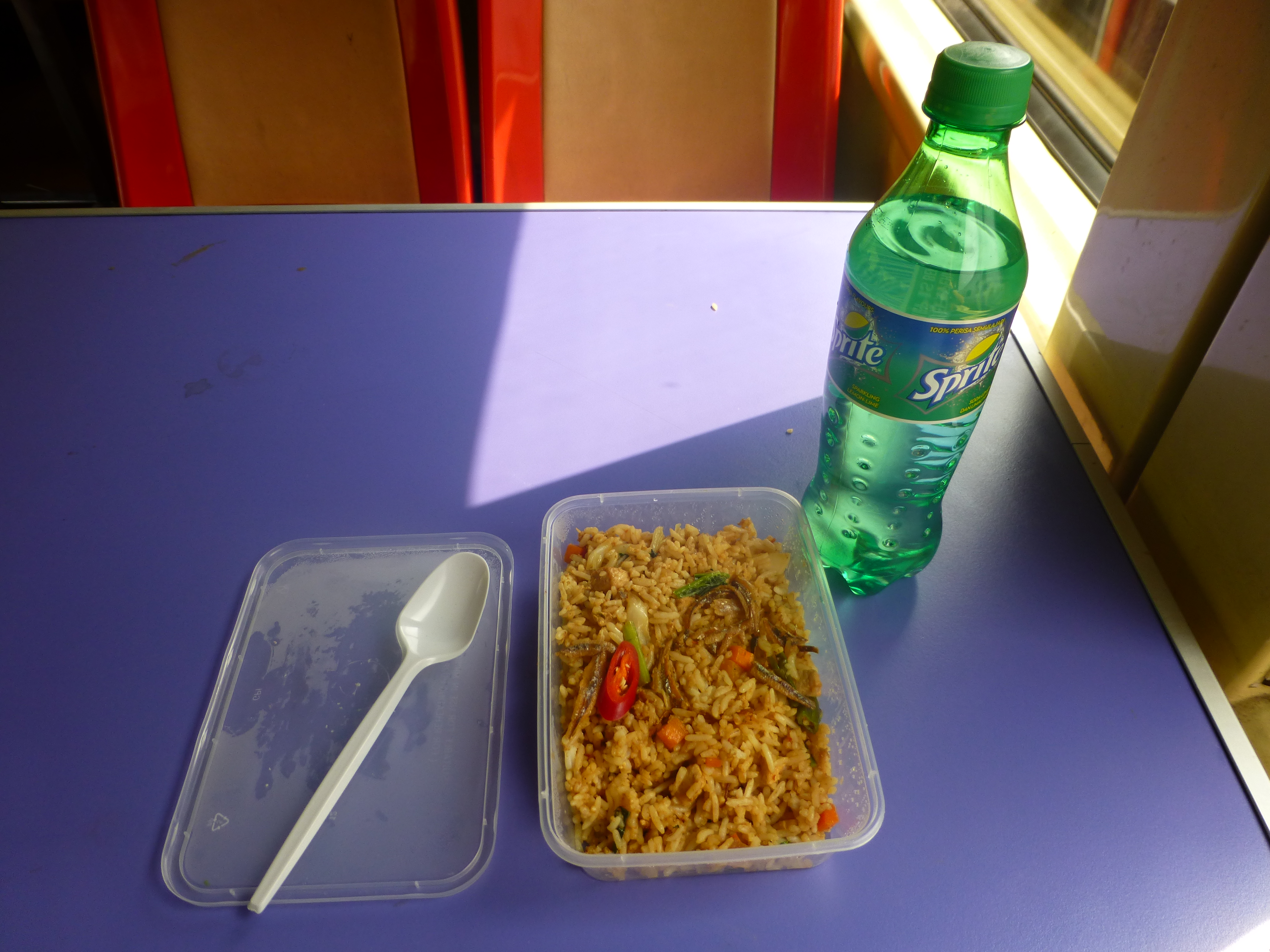 Nasi goreng bentō that had been sold in Malayan Railways. 中文（台灣）: 馬來亞鐵路於賣出的印尼炒飯便當。